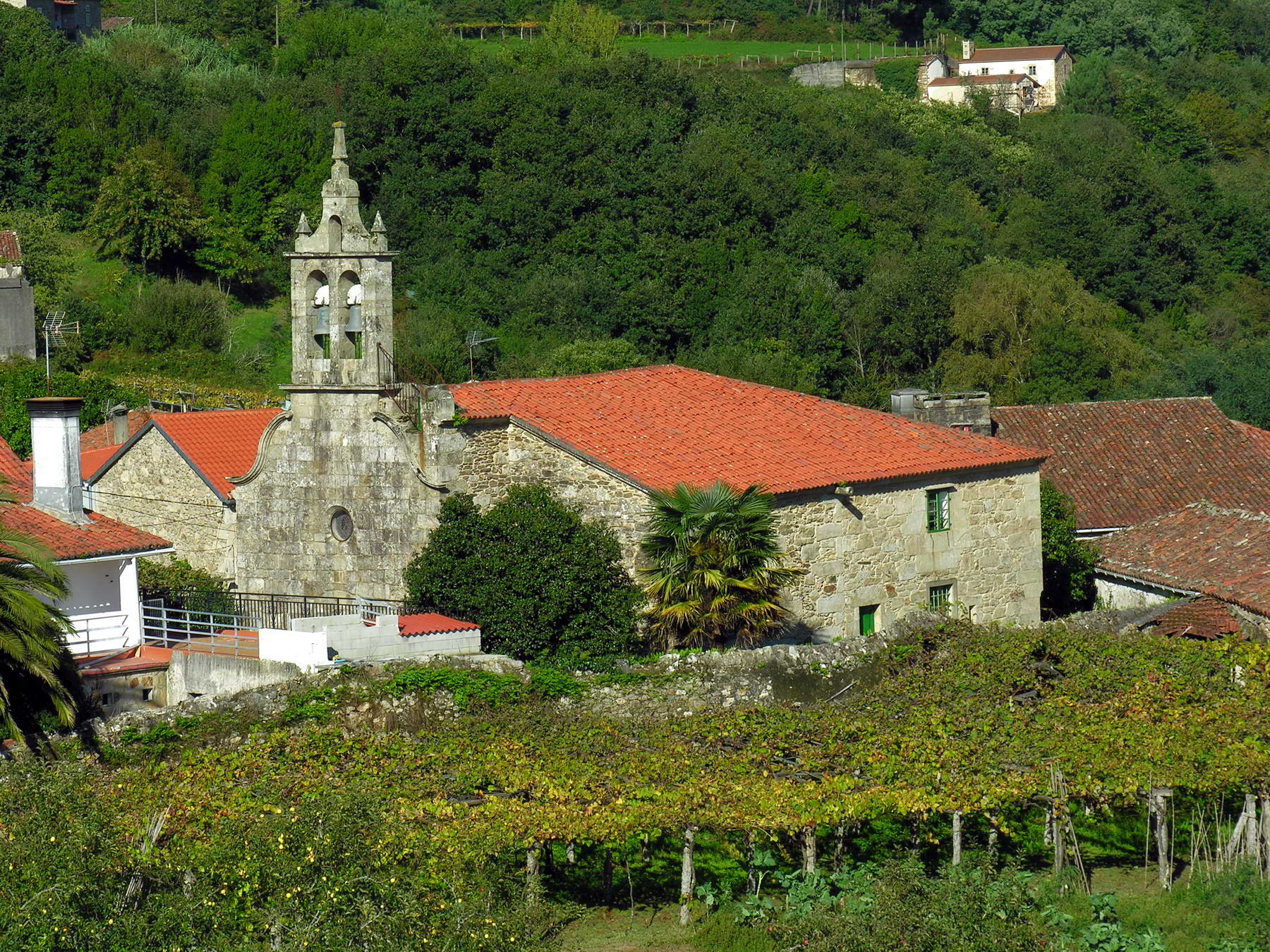 Publish by= Luis Miguel Bugallo Sánchez.